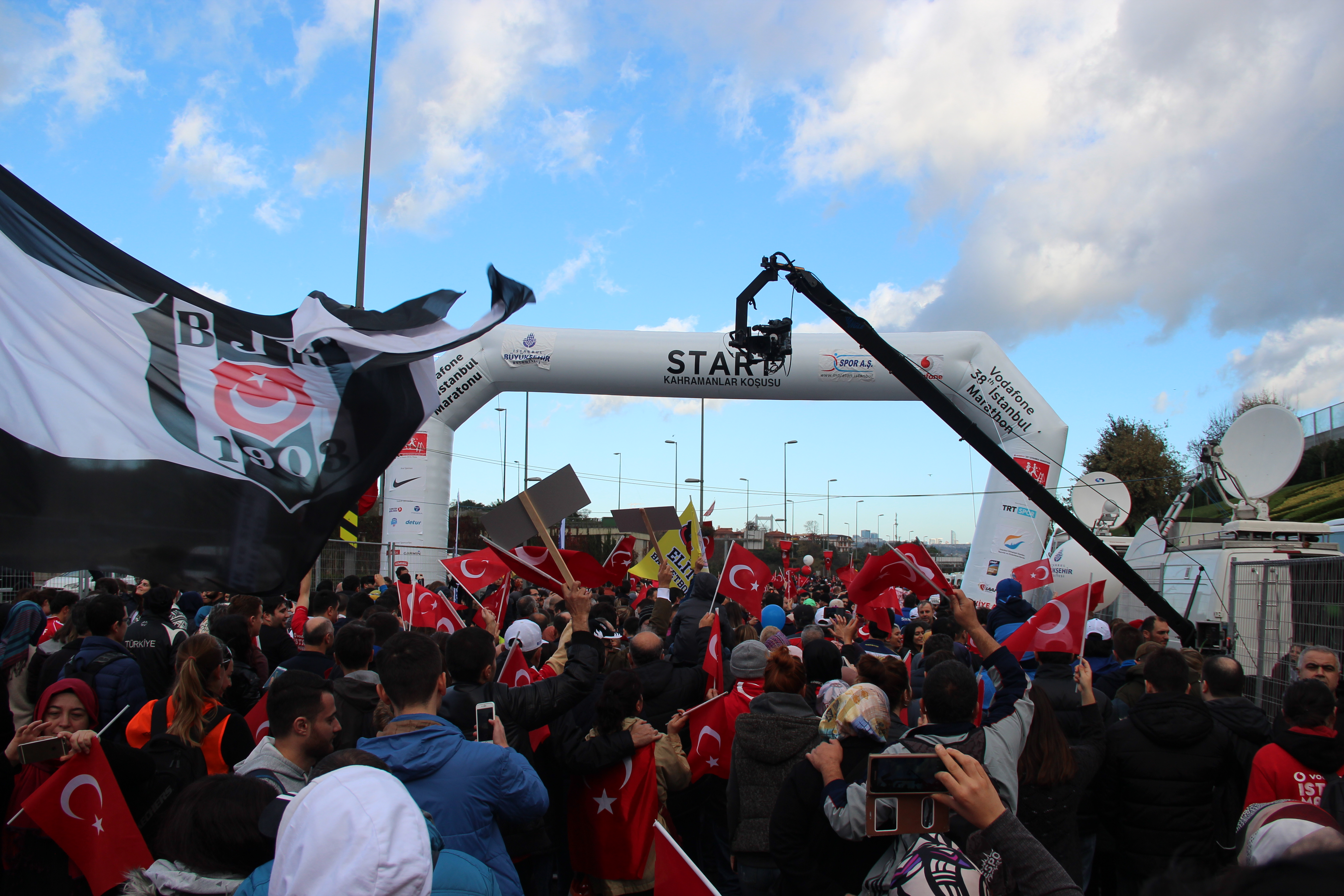 38th Istanbul Vodafone Marathon